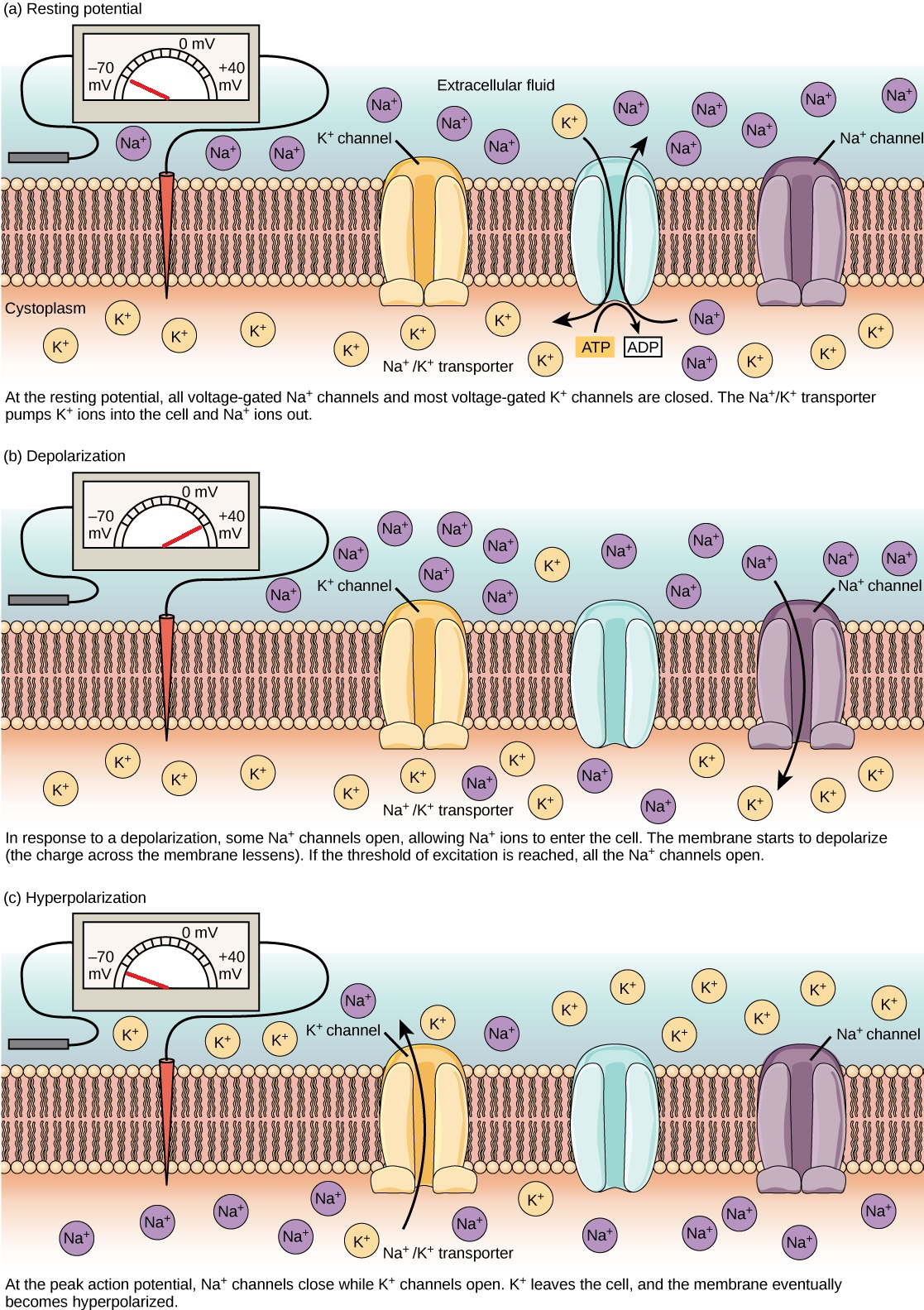 This image shows the activity of ions within a neuron during a depolarization and hyperpolarization events as well as the resting potential. Other information The permission is granted by author at bottom of webpage that is provided.